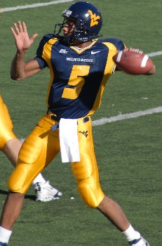 West Virginia University Quarterback Pat White